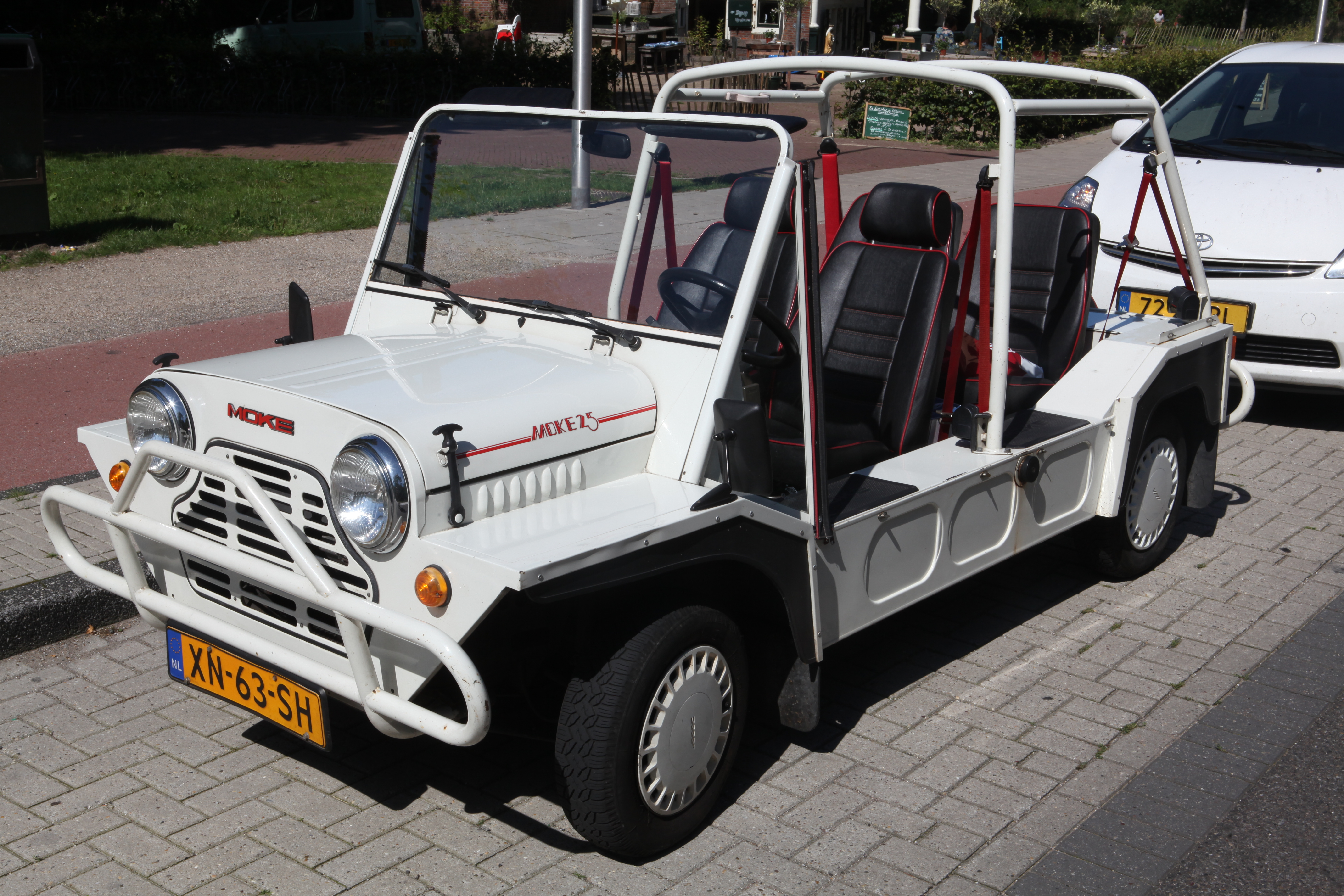 1989 Mini Moke 25, one of 250 special editions built in Portugal to celebrate 25 years of the Moke. Aside from the stickers, it also has a slightly altered dashboard and separate rear seats rather than a single sofa unit.